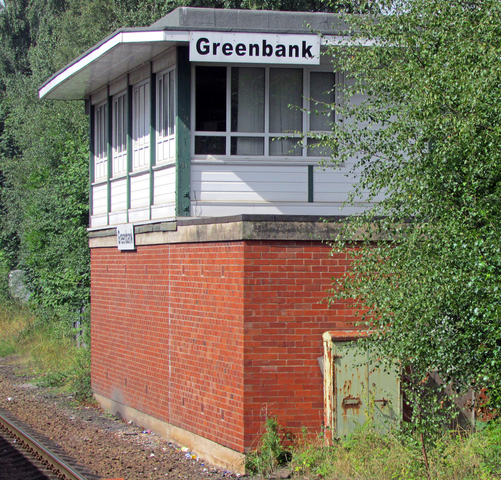 Greenbank railway station signal box